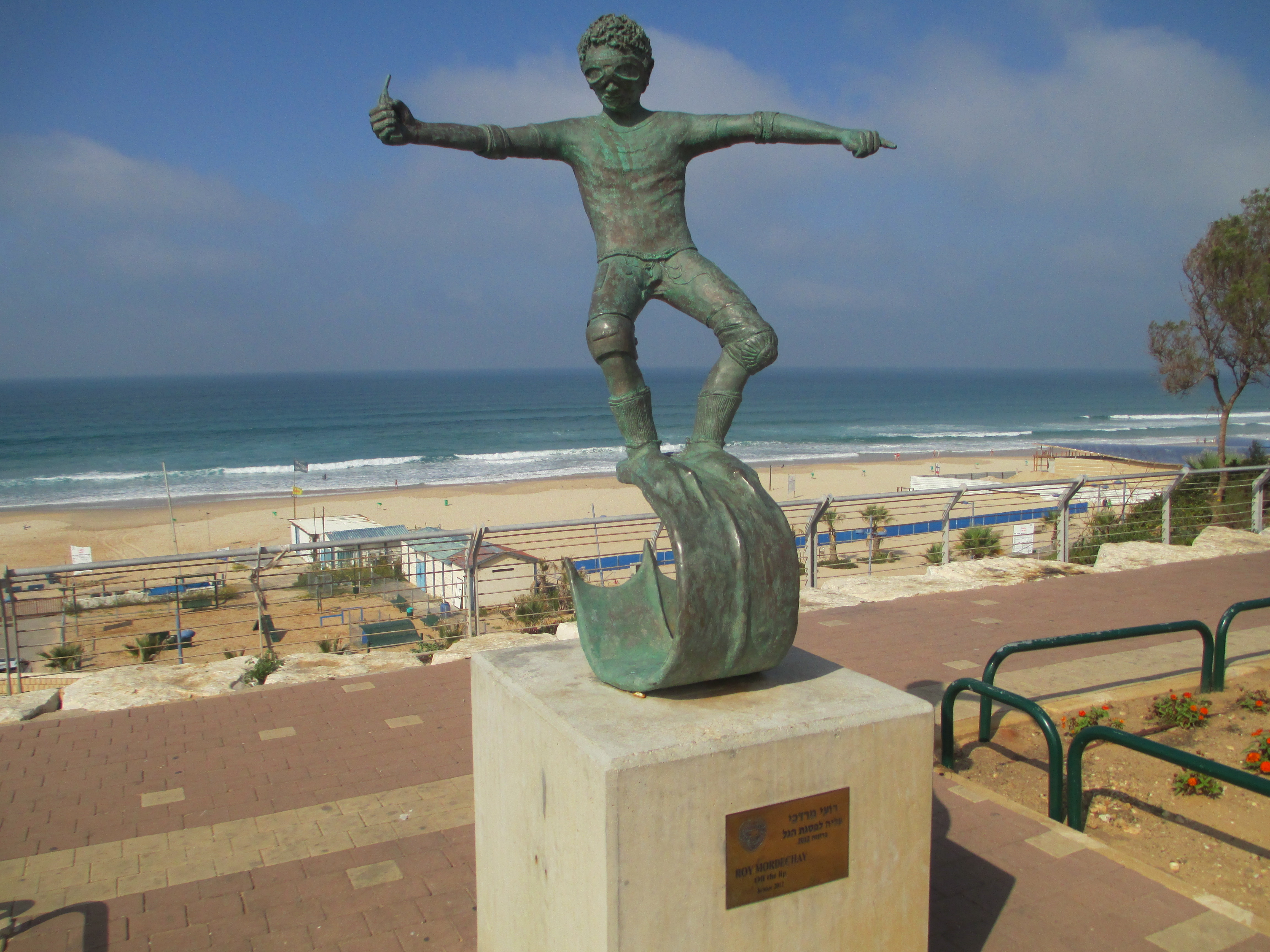 Off the lip sculpture in Rishon LeZion beach